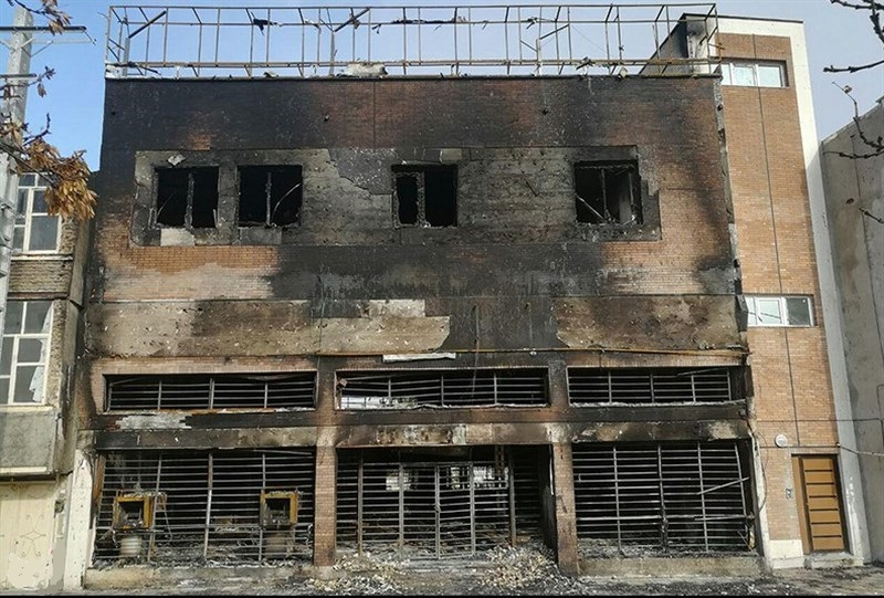 Damage to the public property amid the 2017–18 Iranian protests A picture of the Building Burned in Dorud city, Lorestan province